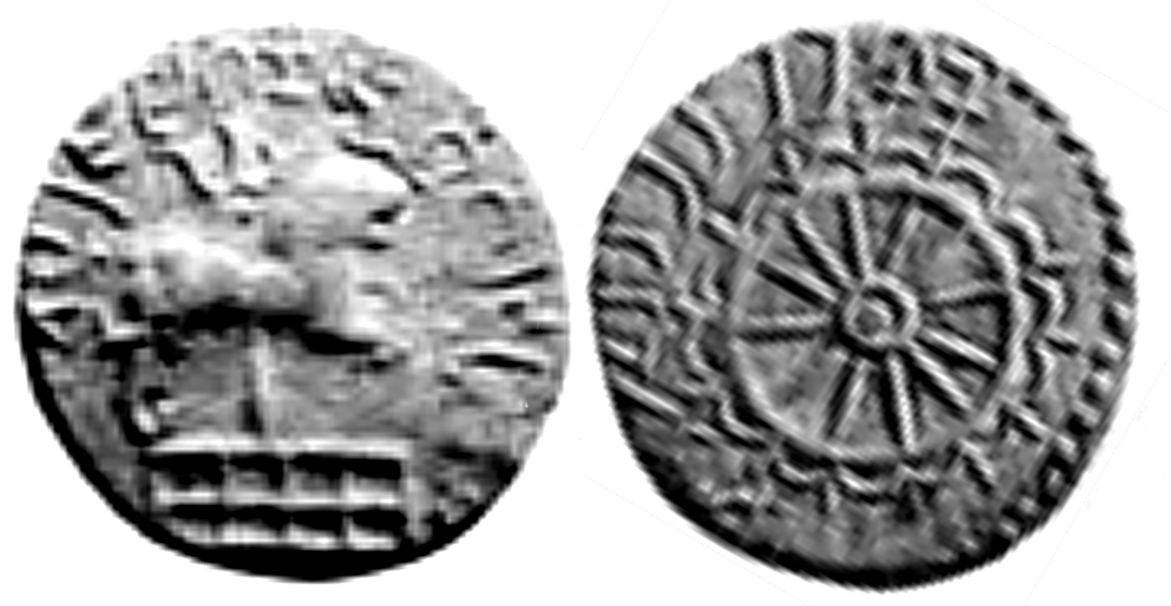 A Vrishni silver coin, cropped from File:Raja_vrishni_coins.PNG